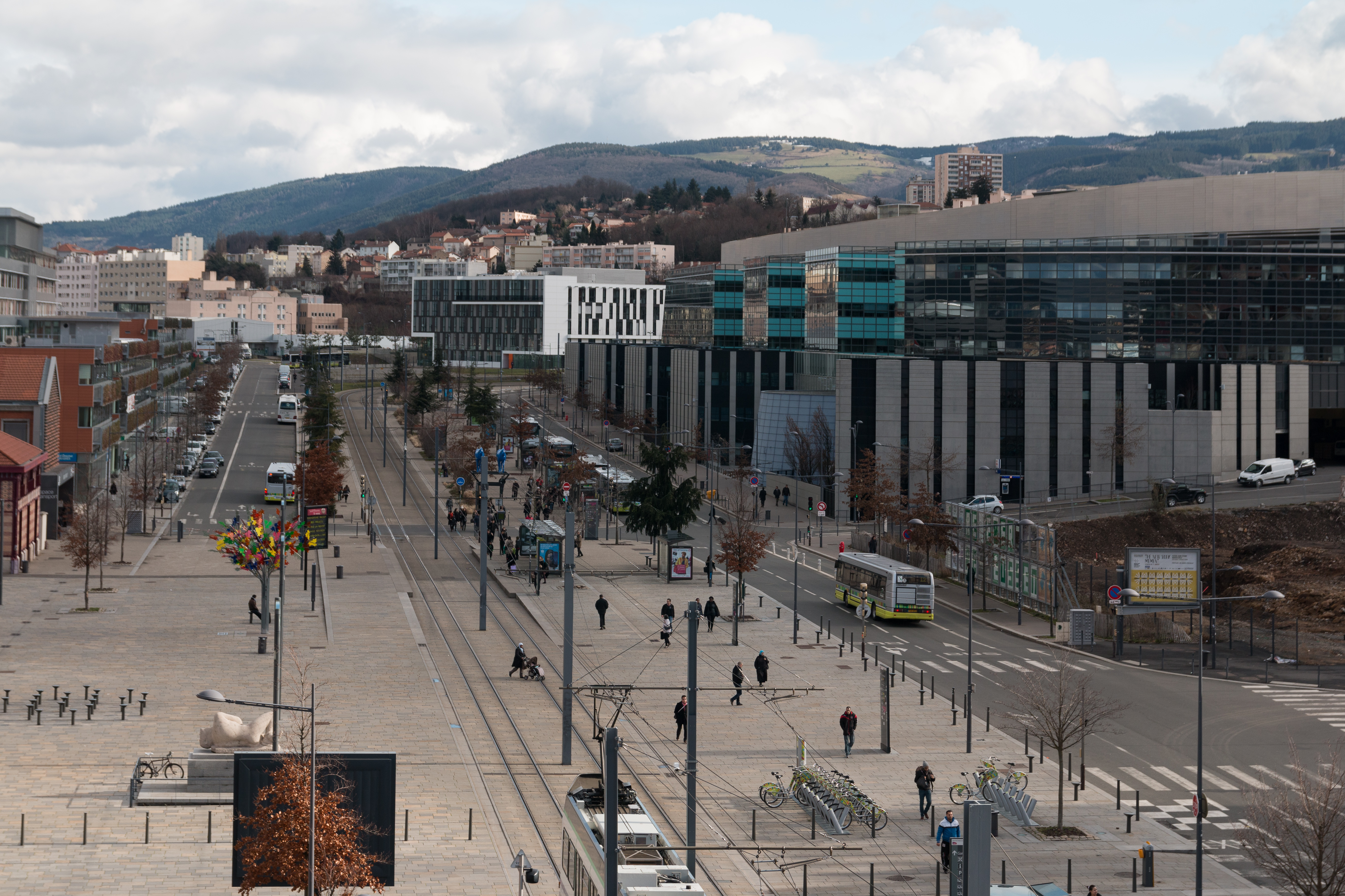 The Esplanade de France view from the parking.